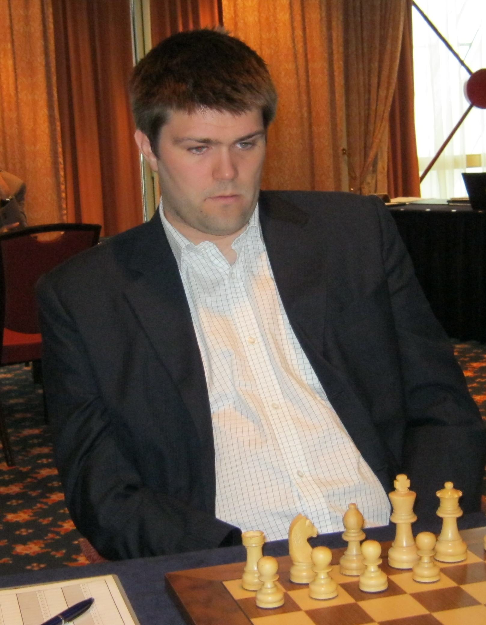 Peter Heine Nielsen, chess grandmaster